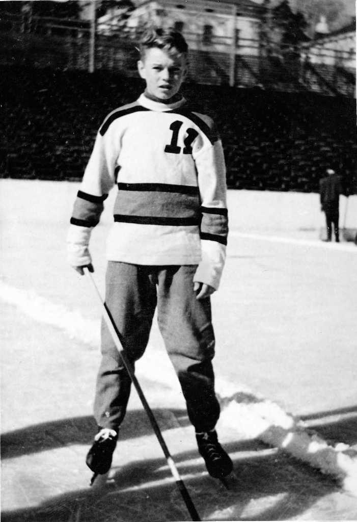 Young Jarmo Wasama